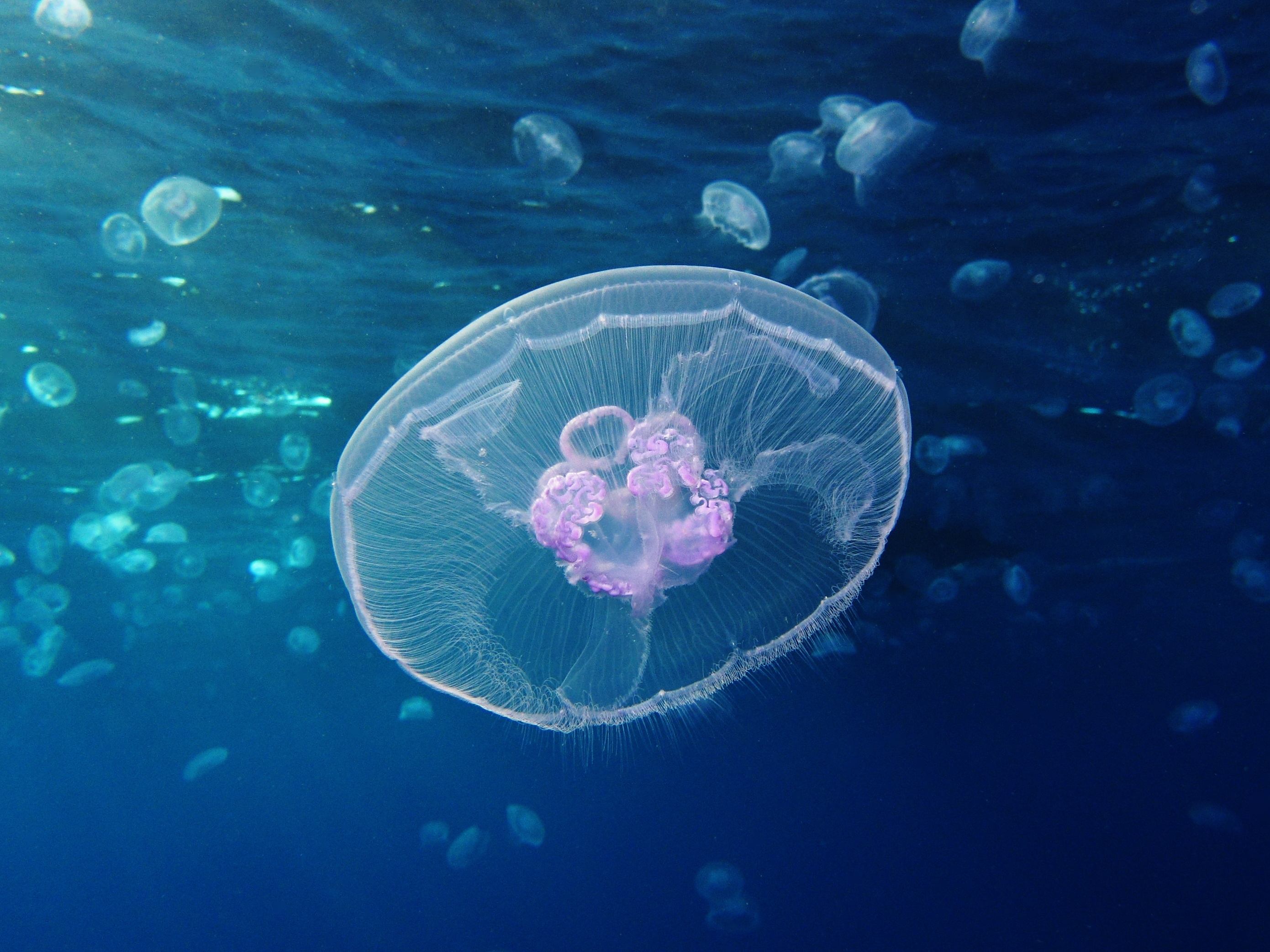 Moon jellyfish (Aurelia aurita) at Gota Sagher (Red Sea, Egypt)